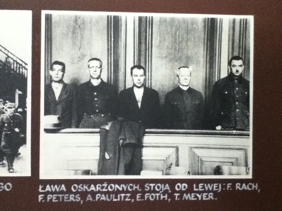 Albert Paulitz and other at the 2nd Stutthoff